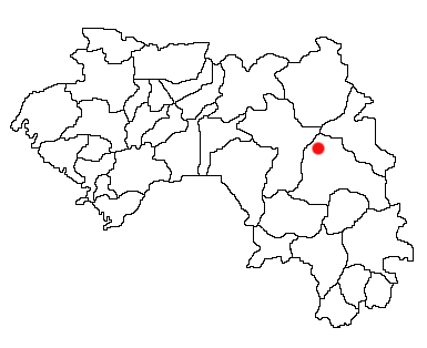 Kankan, Guinea Location Map; created with the GIMP. Made by User:Acntx.